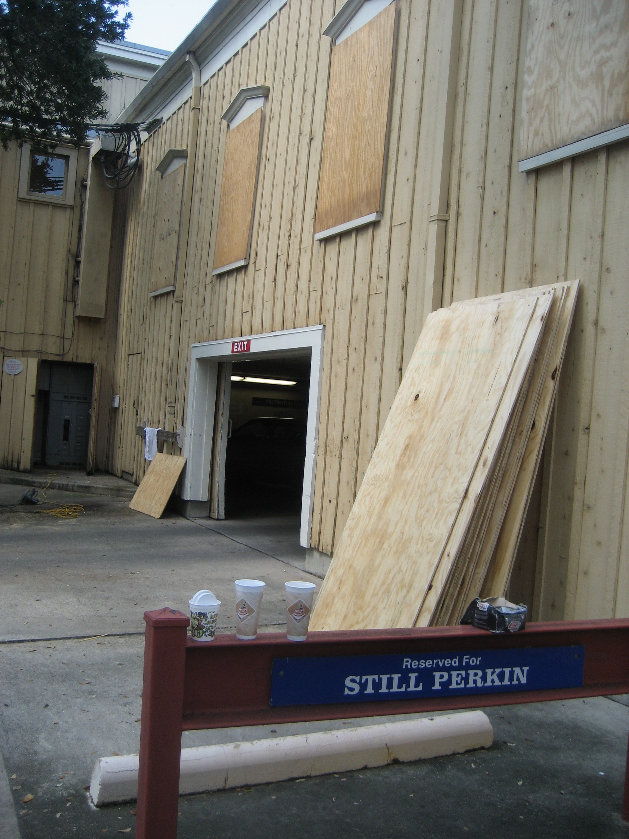 Uptown New Orleans, Louisiana. Windows of "The Rink" building being boarded up in preparation for possible strike by Hurricane Gustav.